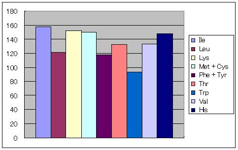 Amino Acid Score of Checken